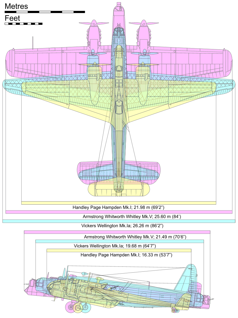 Scale comparison drawing of British WW2 medium bombers